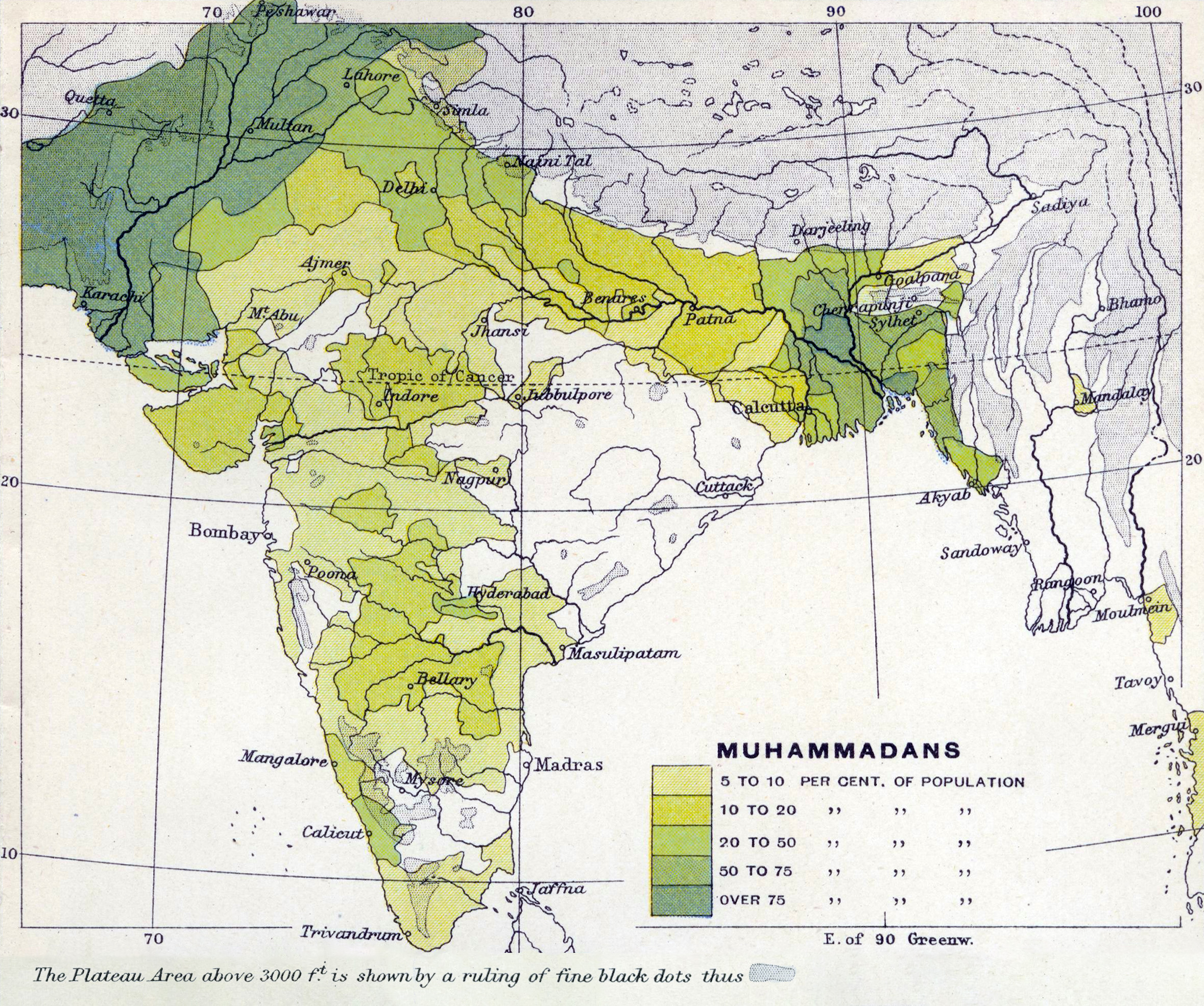 Map "Prevailing Religions of the British Indian Empire, 1909: Muslims"